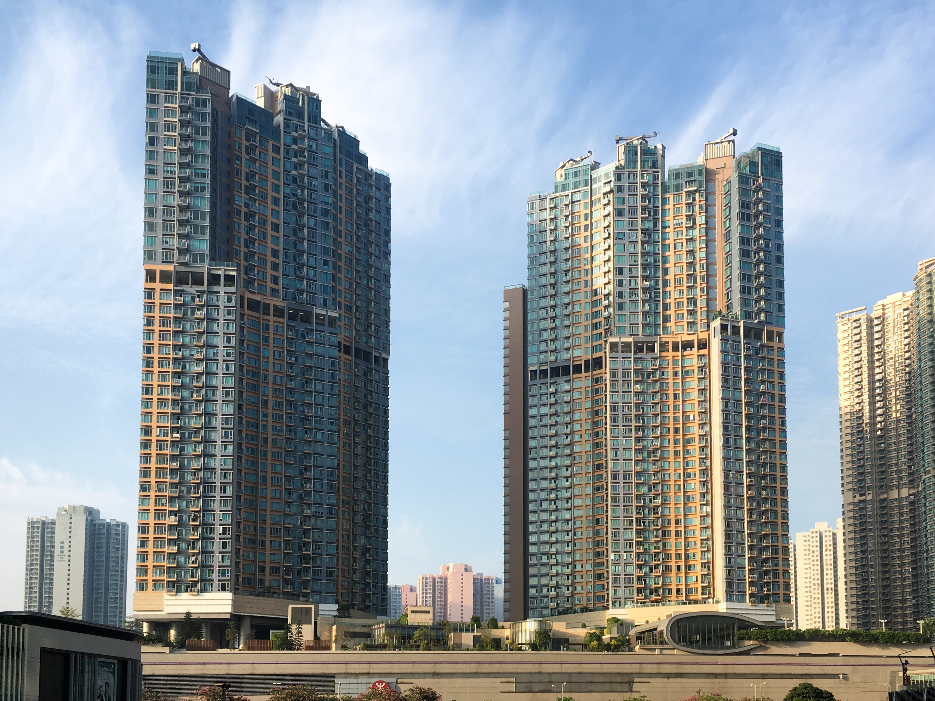 The Wings